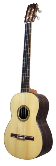 Photograph of a Concert Cuatro built by Spanish-Venezuelan Luthier Ramón Blanco following specs by physician & folklorist musician Rafael Casanova. Estimated worth: $2,200. Notice that this instrument has 17 frets, allowing to play 3 more notes than a standard cuatro in the major scale over the octave, up to the 4th. on any string. Photograph taken on Dec-09-2006 at the Luthier's home studio, in Caracas, Venezuela. Camera: HP Photosmart R507, using natural lighting (cropped to get rid of furniture). Photographer: AVM